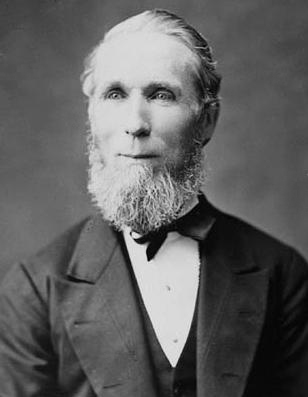 Alexander Mackenzie in 1878.